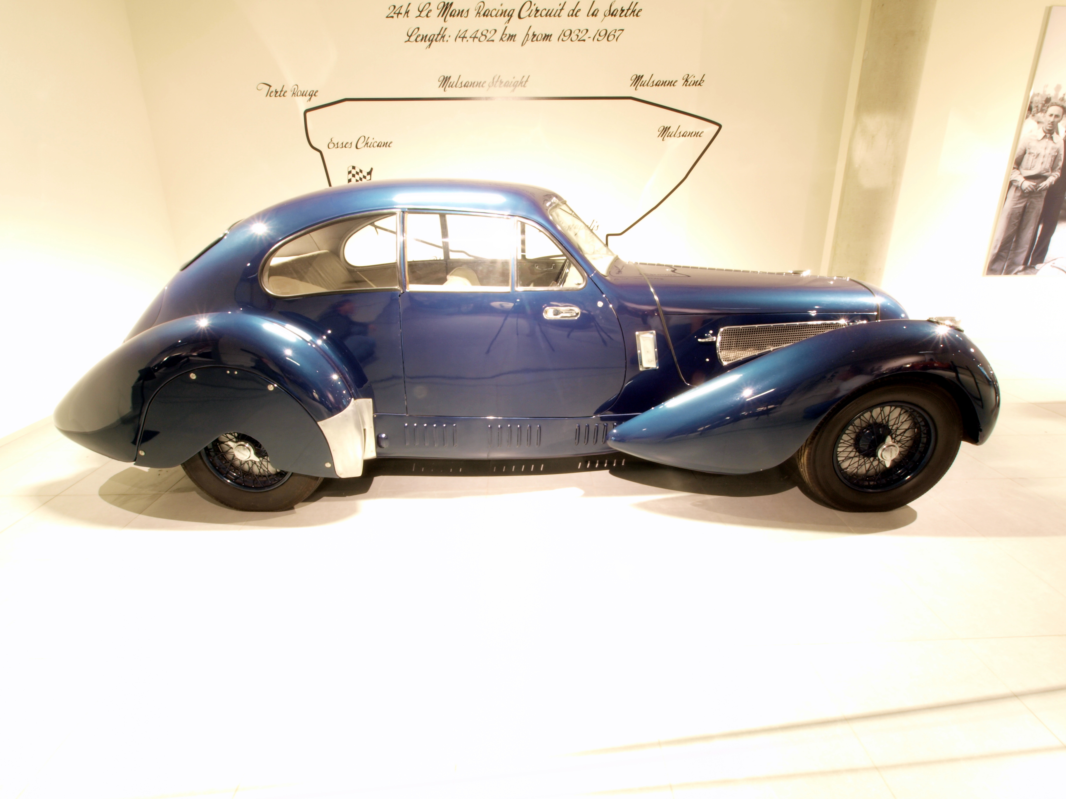 Photographed at the Louwman museum / Louwman Collection, The Netherlands.